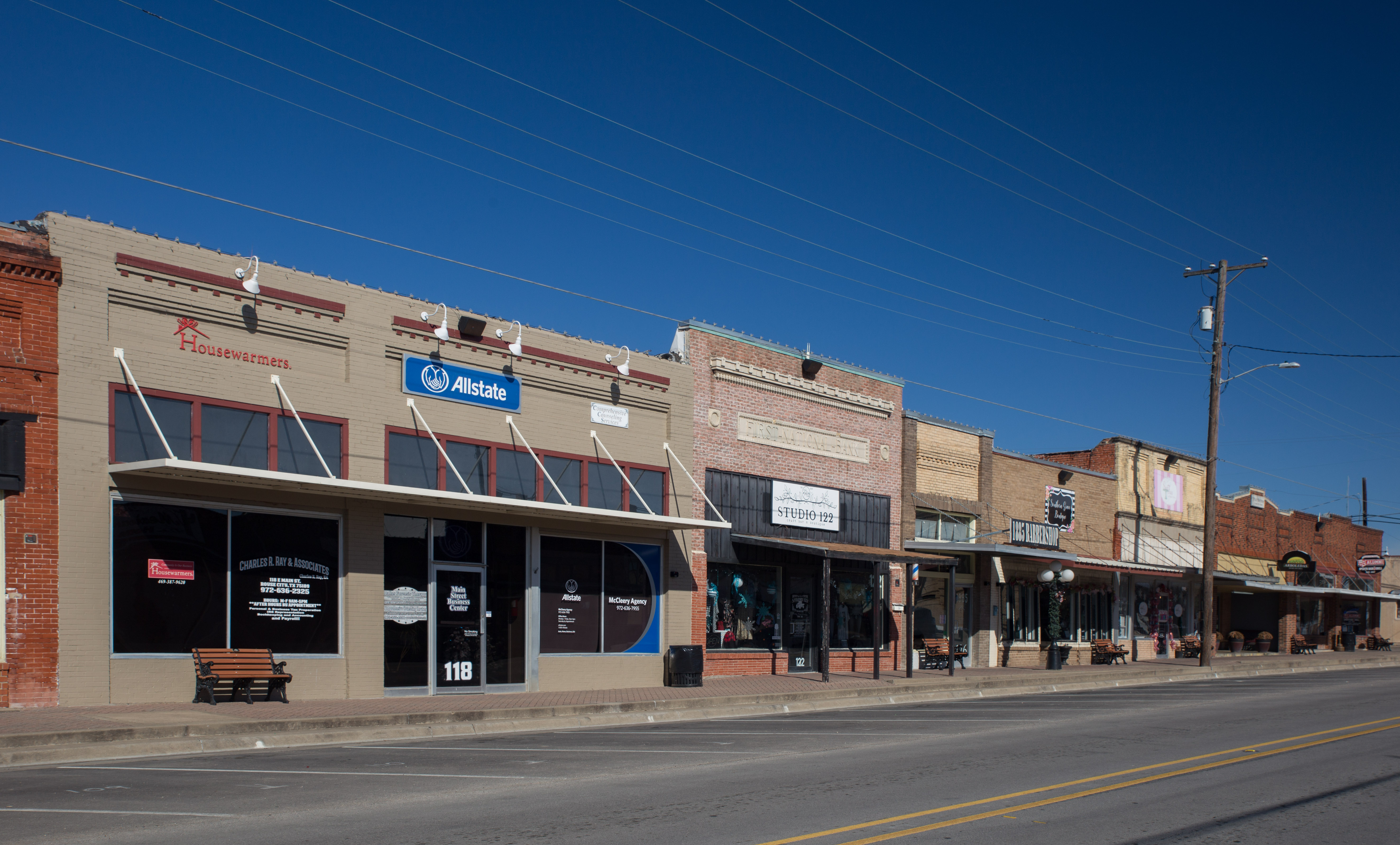 Downtown Royse City, Texas